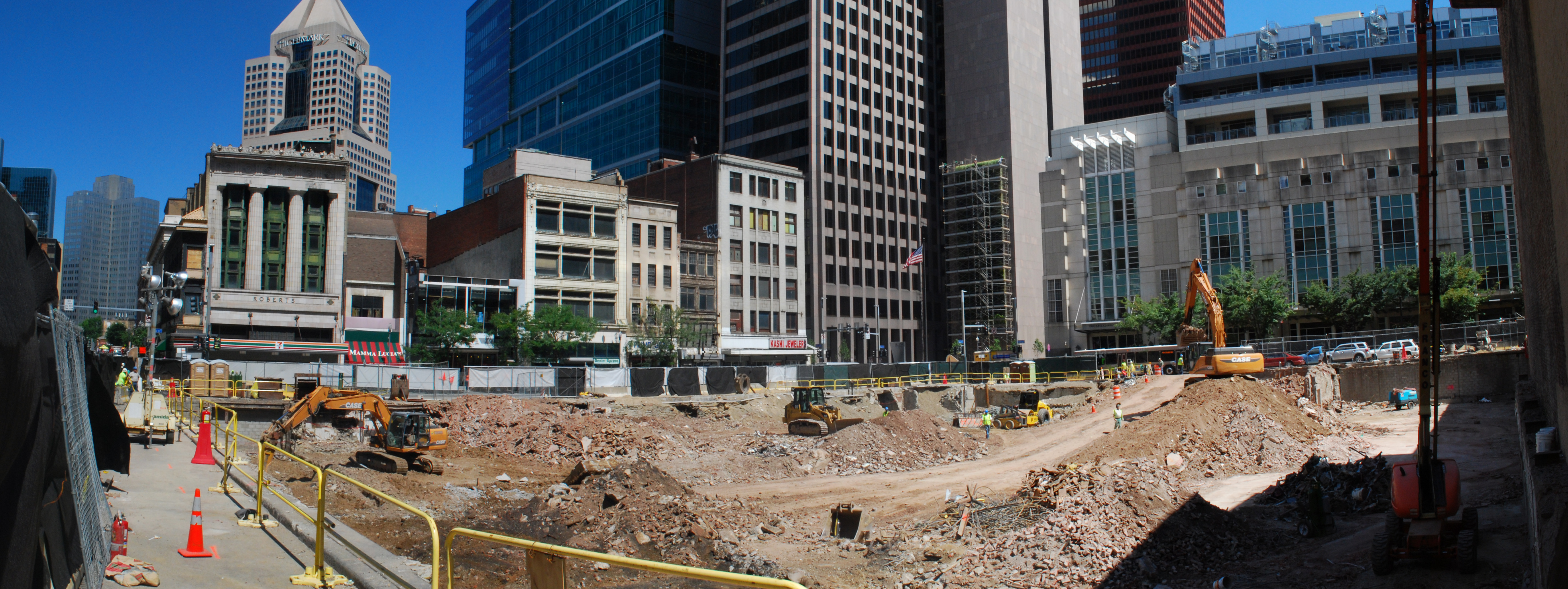 Construction progress at Tower at PNC Plaza in Pittsburgh as of June 2012.